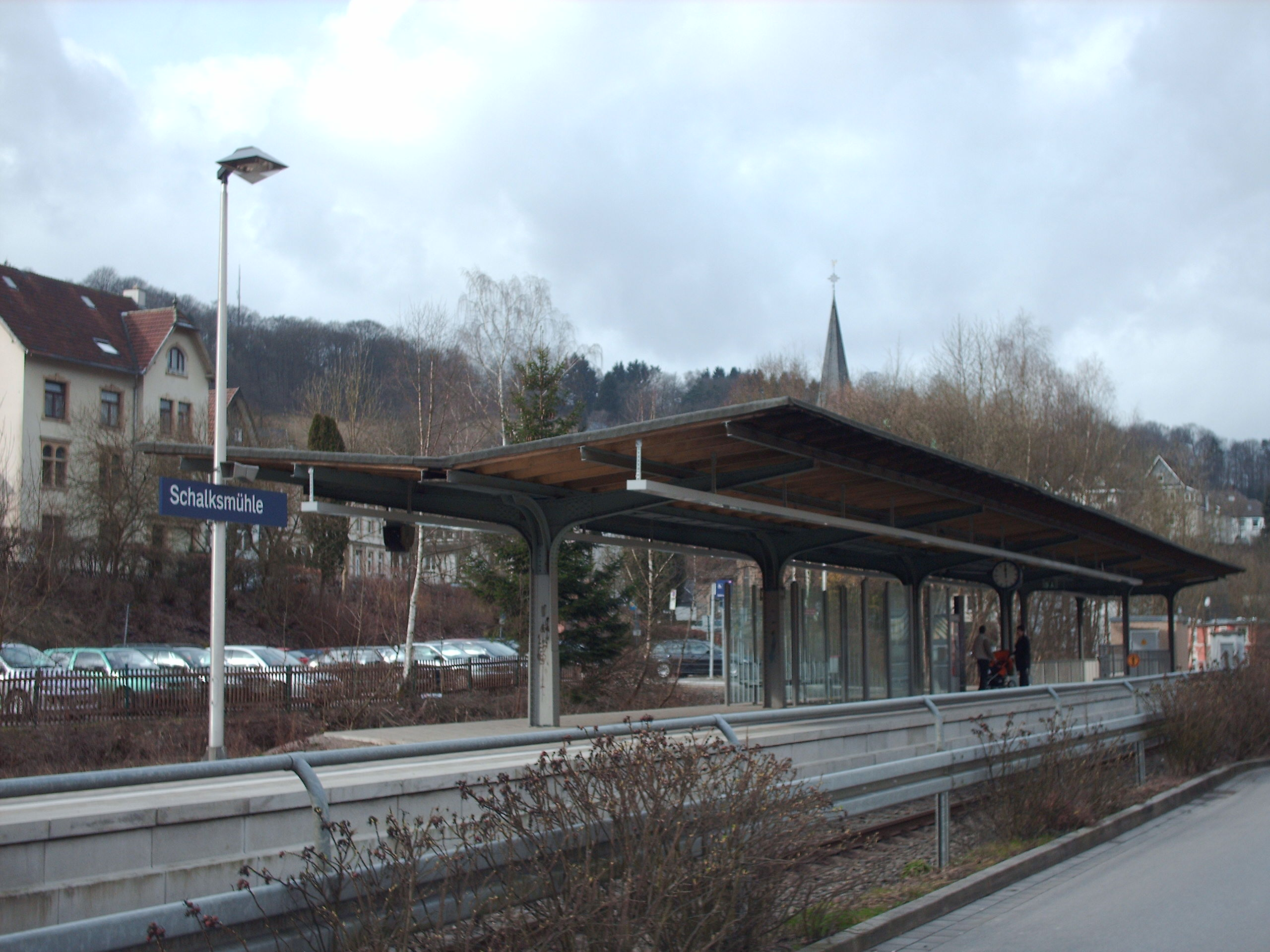 Schalksmühle station, Schalksmühle, Germany check usage